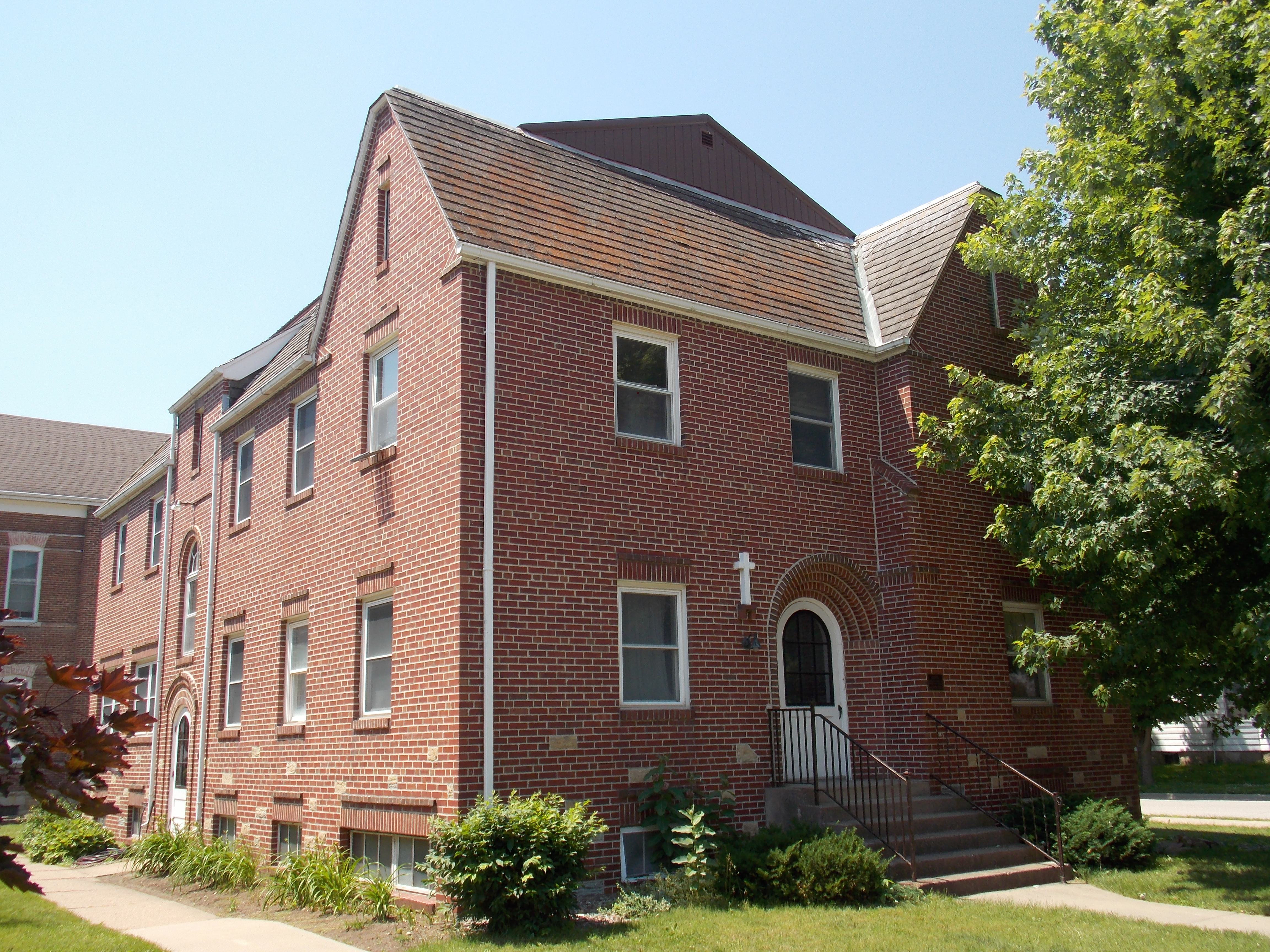 The convent in the St. Mary's Catholic Church Historic District.